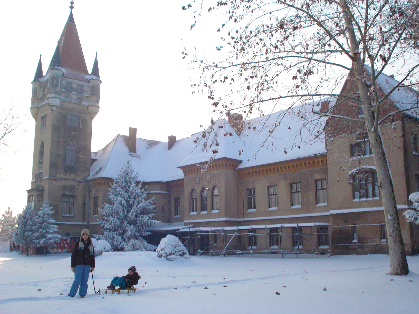 Feštetić castle in Pribislavec - east view